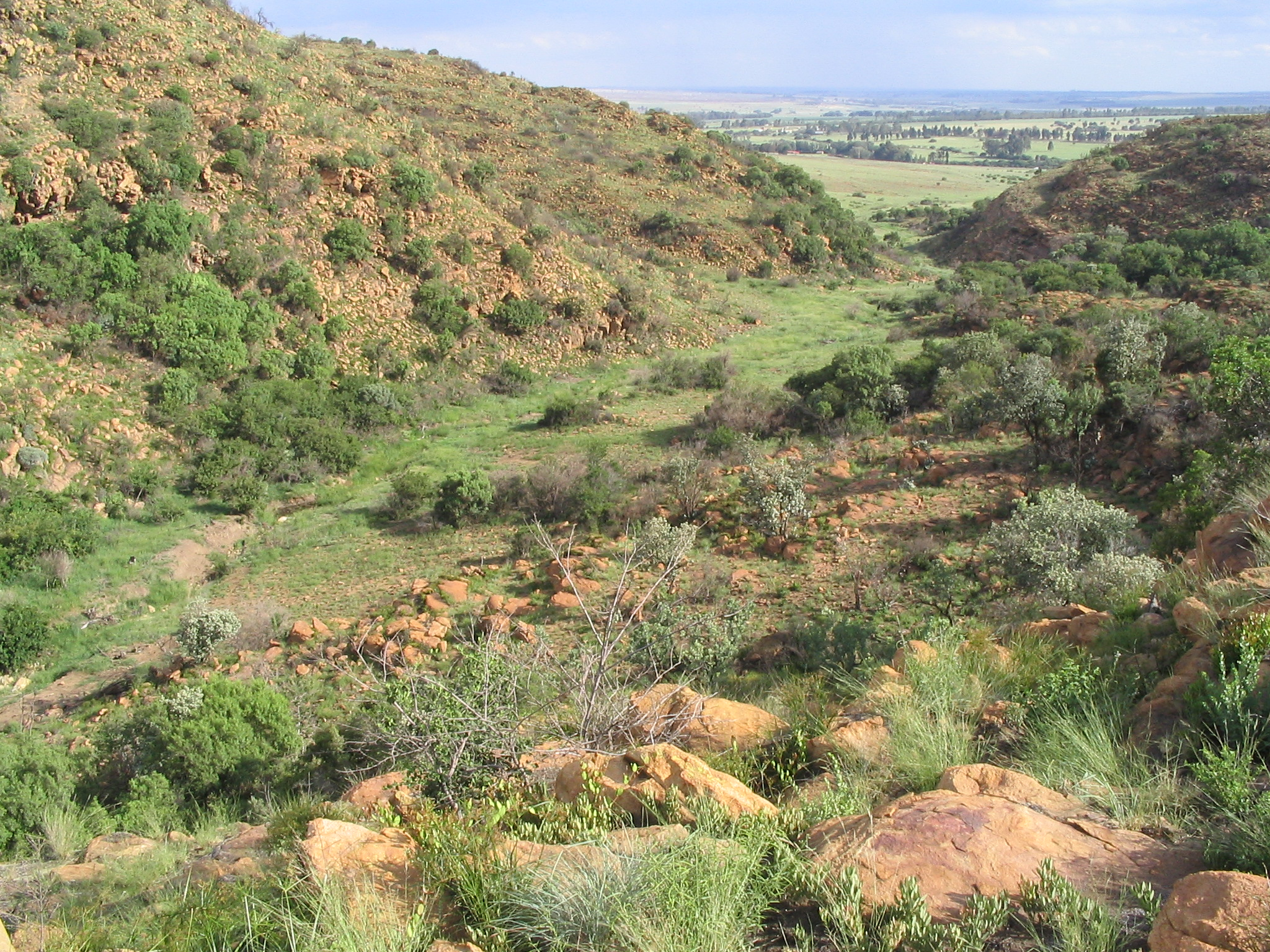 Suikerbosrand Nature Reserve - Gorge Picture taken on 15/01/2004.